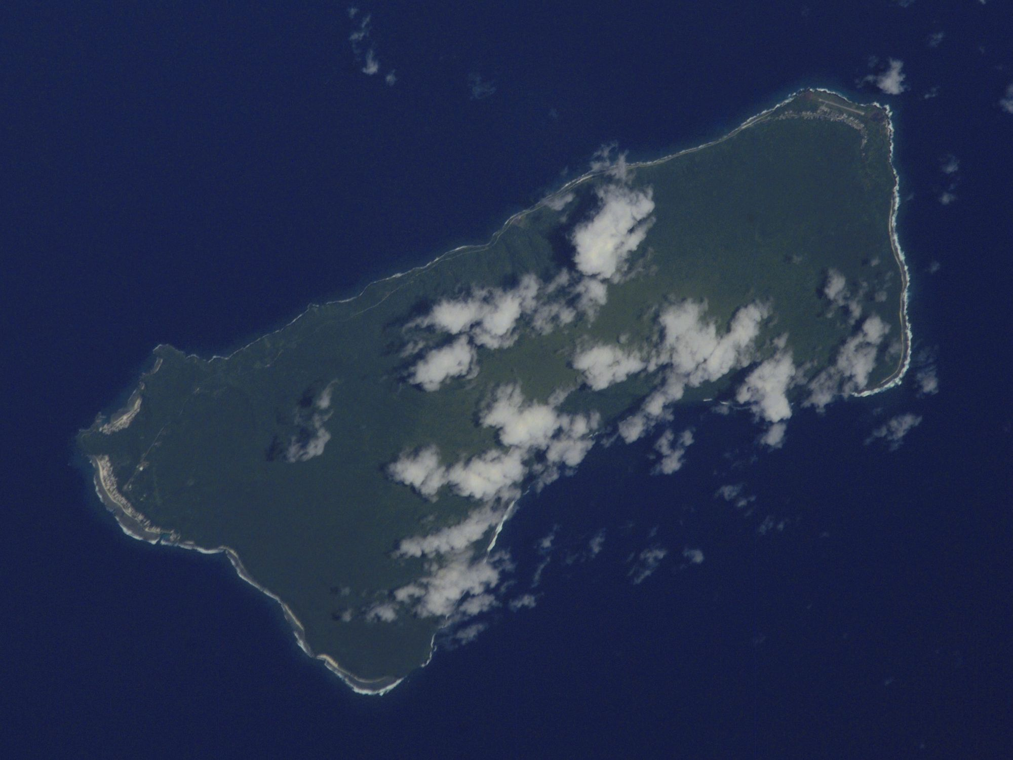 NASA Astronaut image of Ta'u Island (Manu'a Islands, American Samoa) in the Pacific Ocean